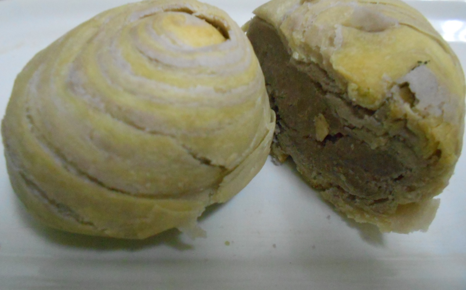 Taro Pastry,dessert from Taiwan